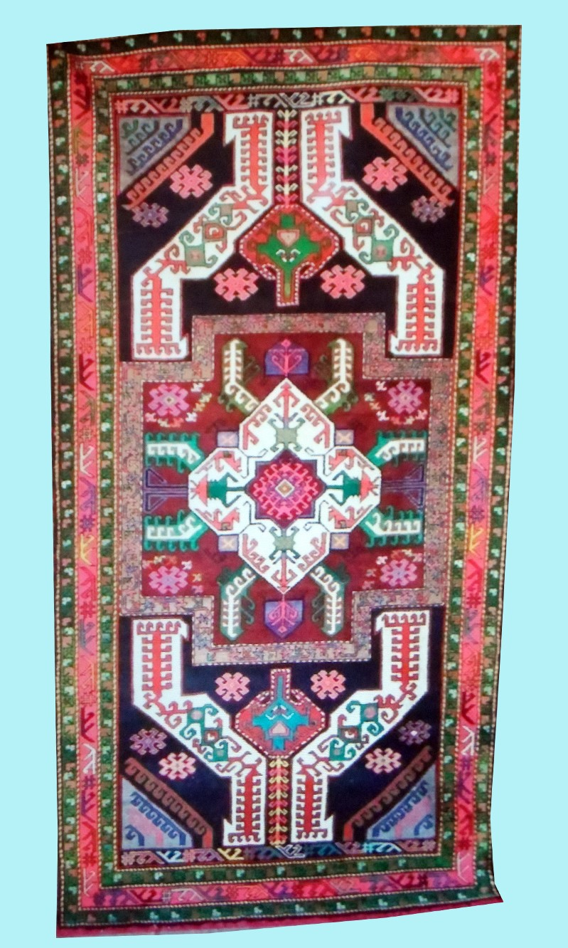 "Kasym ushagy carpets" - Azerbaijanian fleecy carpet, Karabakh school, Jabrayi (Cəbrayıl) group .The name of this carpet is associated with the name "Kasym ushagy", the residents of the villages Shamkend, Erikli, Kurdhaji, Chorman and Shelva, located to the north of Lachin, the present-day district center, of Azerbaijan. Carpet woven in the village Erikli of Lachin region in 1976. Private collection.